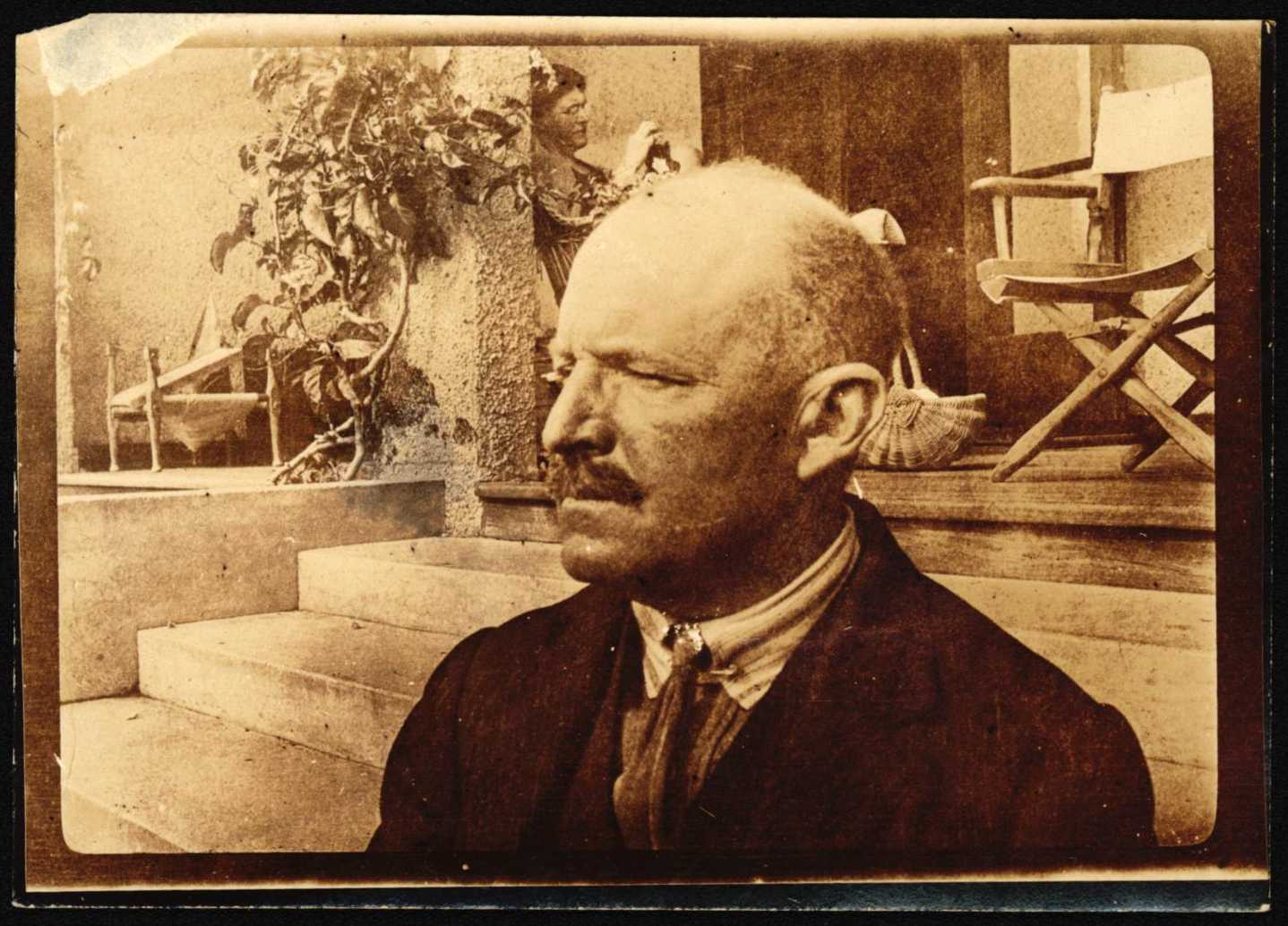 Archives New Zealand Reference: ACGO 8333 IA1 1349 / 15/11/16175